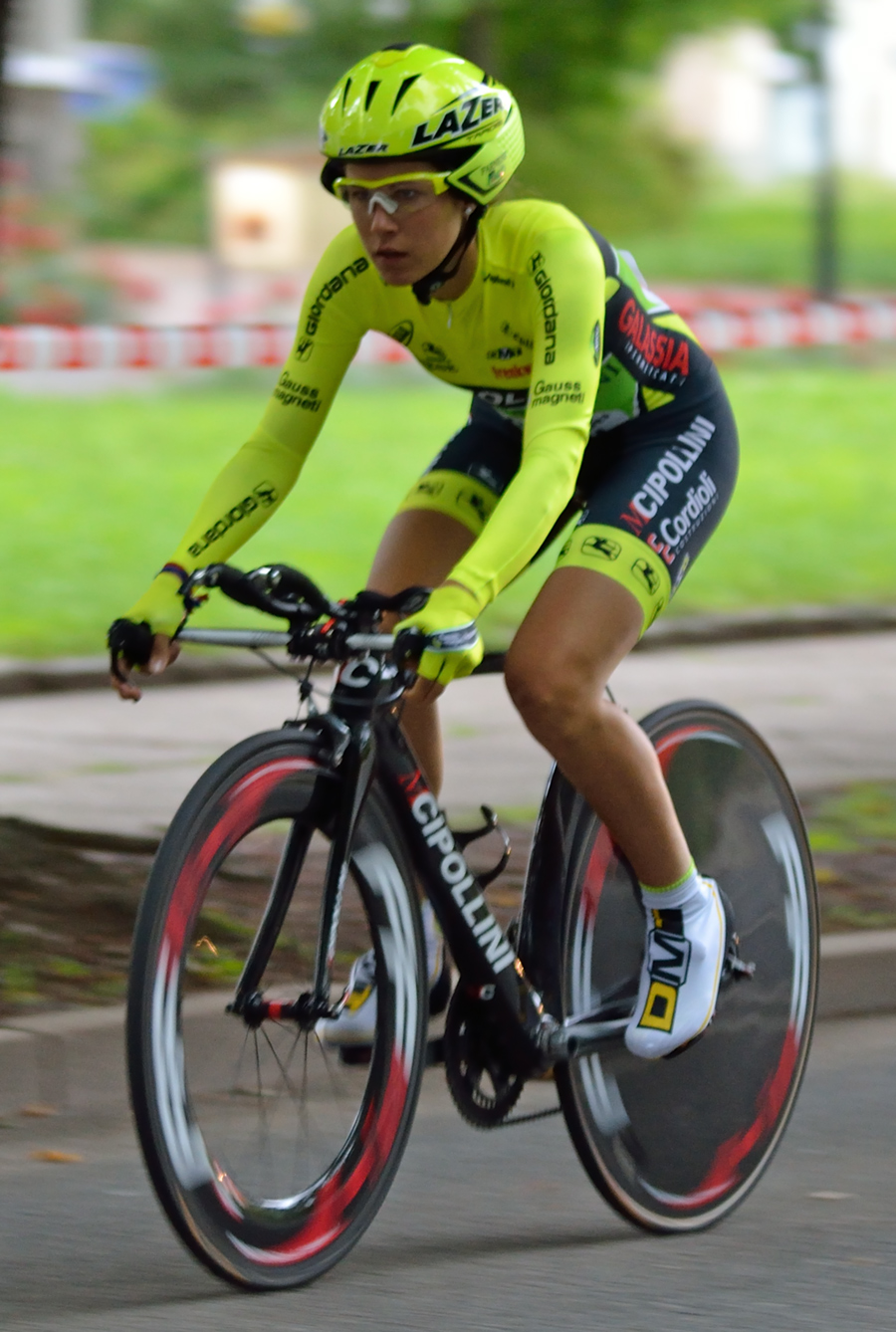 Elena Cecchini from the MCipollini Giambenini team during the Women's Tour of Thuringia 2012 in Zwickau, Germany.